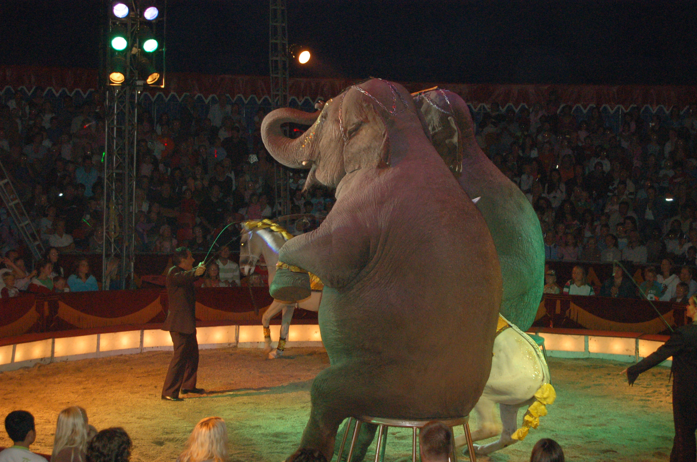 Two sitting elephants in a cirkus, the cirkus Merano in Oslo, Norway.